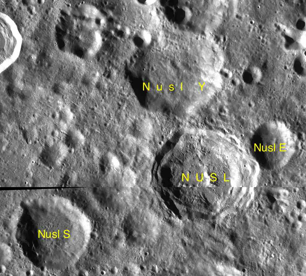 Parts of the charts LAC-32, LAC-49 used for the presentation